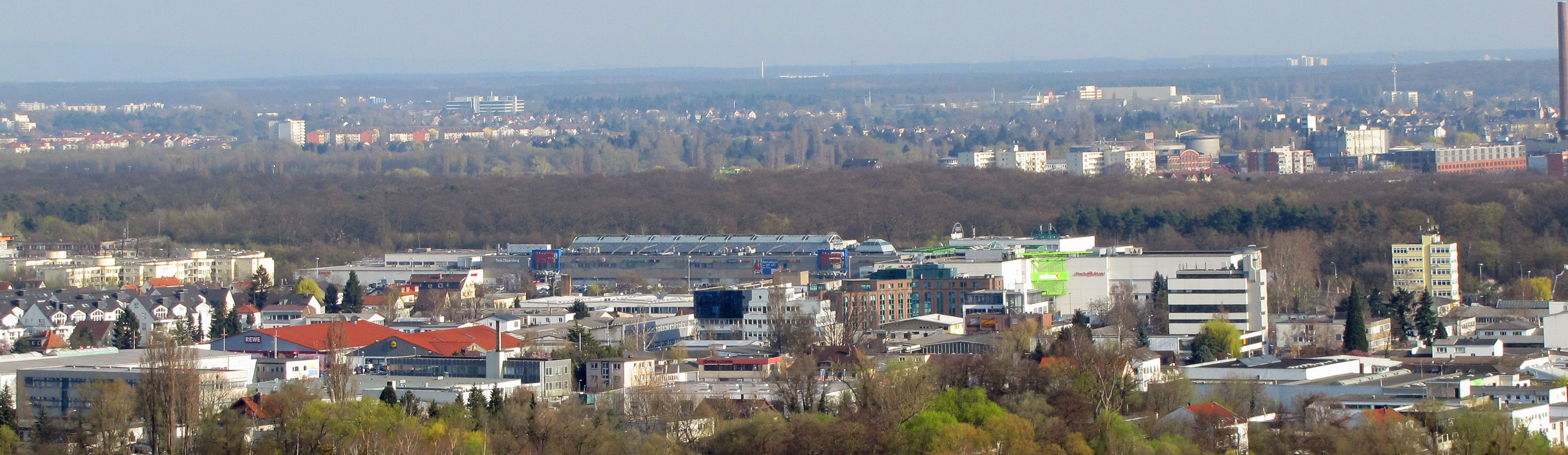 Shopping mall "Hessen-Center" and business area in Frankfurt-Bergen-Enkheim, view from "Lohrberg" park, Germany.